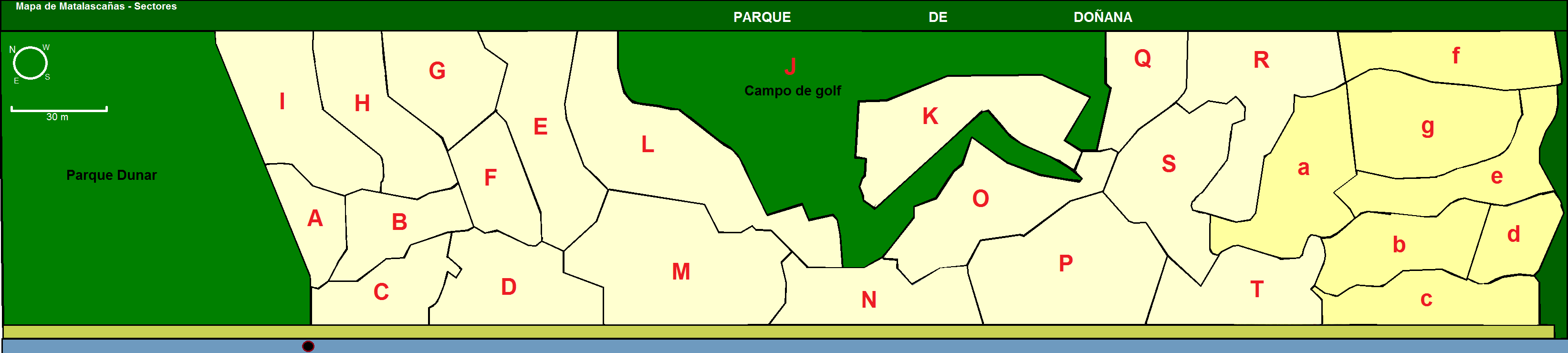 Map of the spanish city of Matalascañas